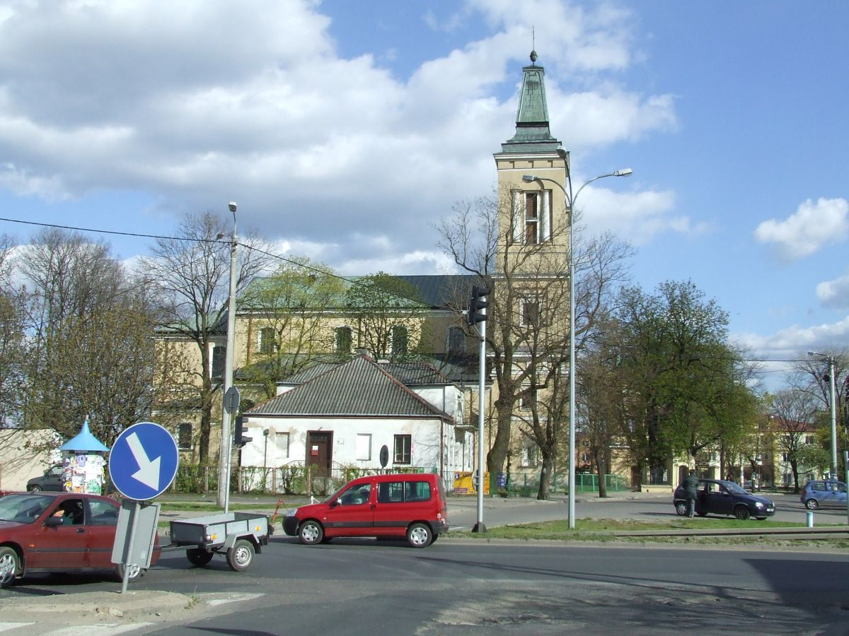 Radzymin, classicist colegiate church of Transfiguration of Jesus, with a . Originally built by Johann Christian Kammsetzer (main aisle and the bell tower, as well as the school and poorhouse visible in the foreground) while the later additions (side aisles, presbyterium and two towers) were added by Konstanty Wojciechowski.